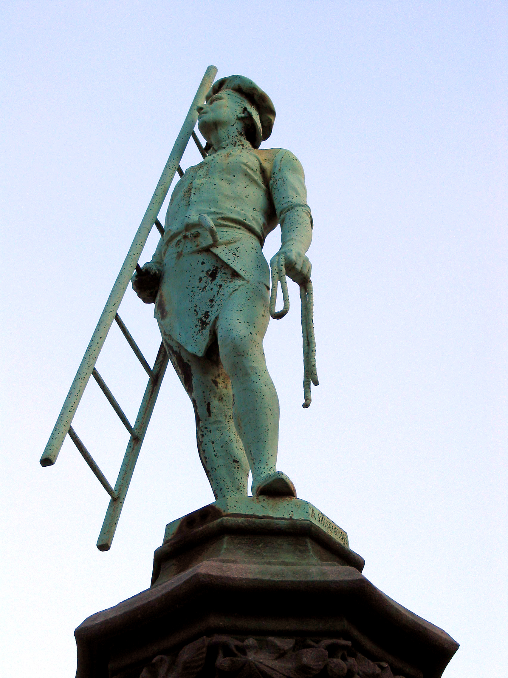 Brussels (Belgium), Square du Petit Sablon - Statue of the slater by the sculptor Albert Desenfans (XIXth century).